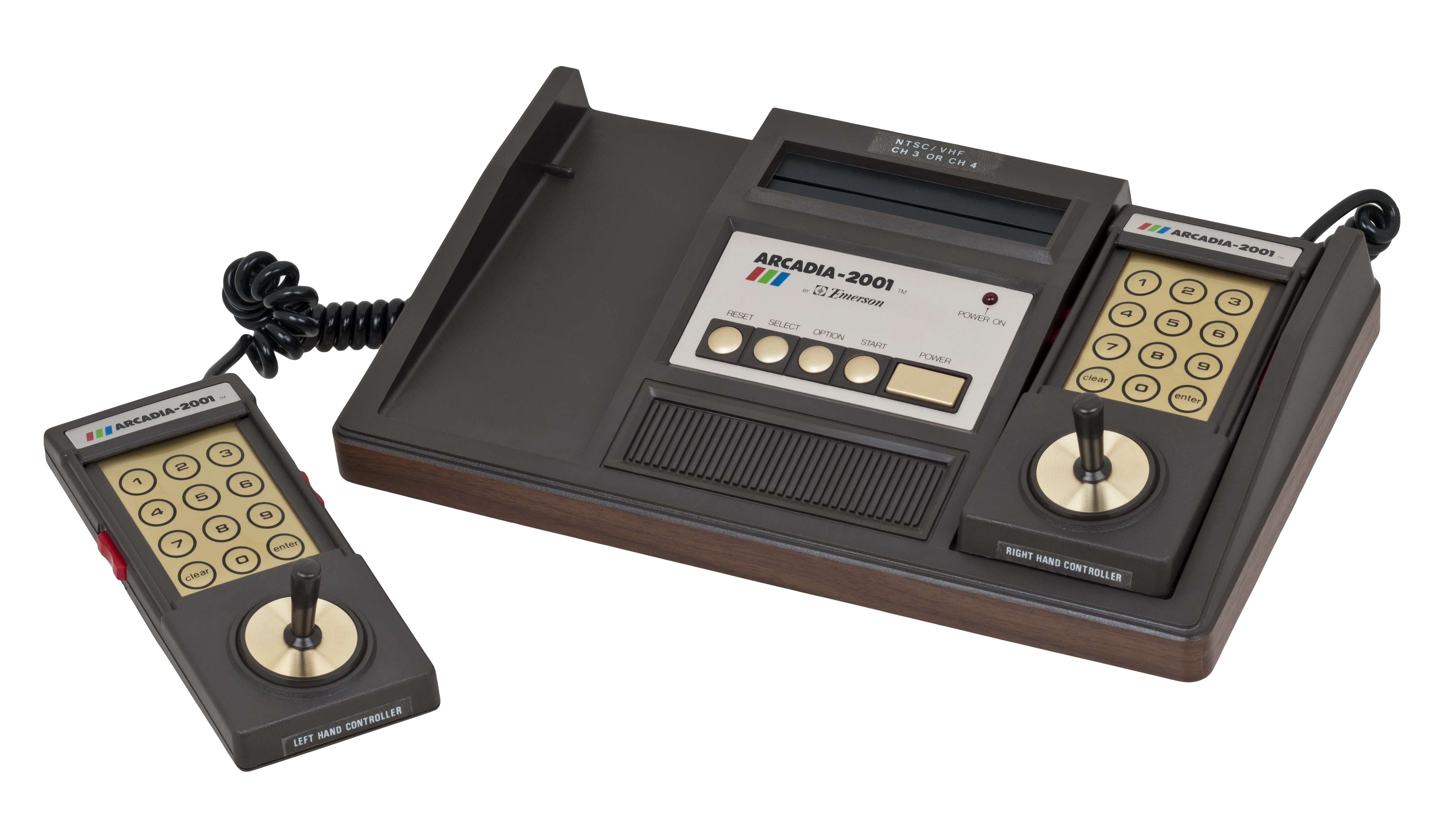 The Emerson Arcadia 2001, a 2nd generation video game console released in 1982.